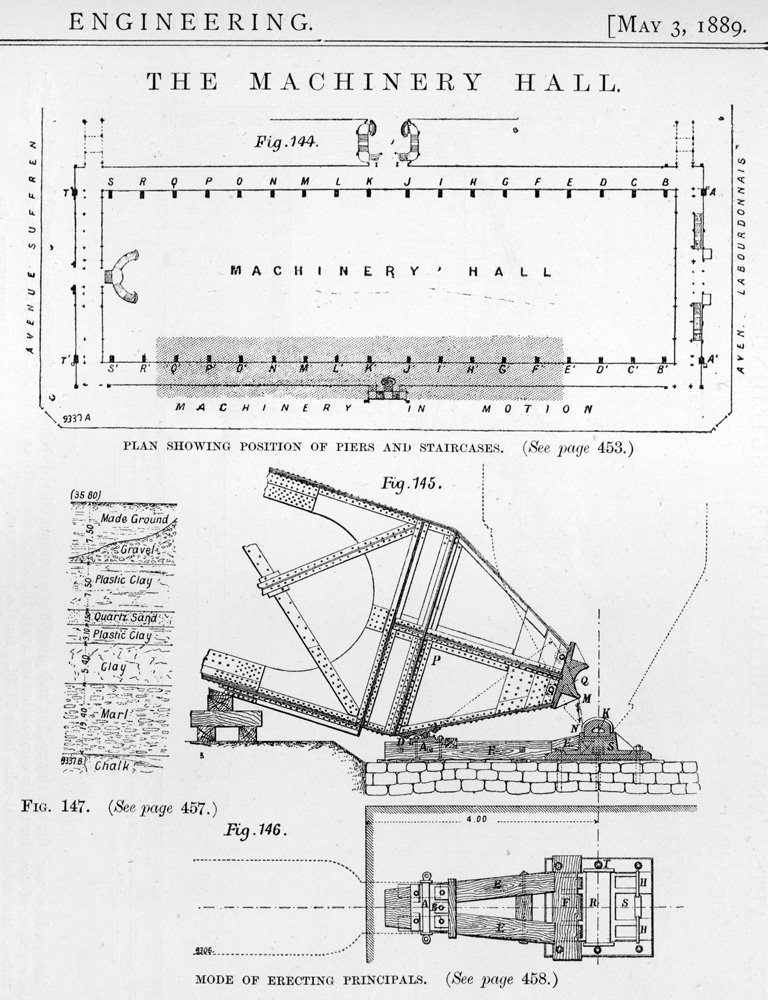 Construction details, from Engineering, The Paris Exhibition, May 3, 1889 (Vol. XLVII)